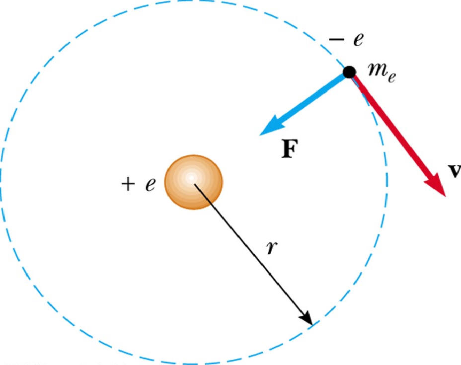 Bohr's first postulate